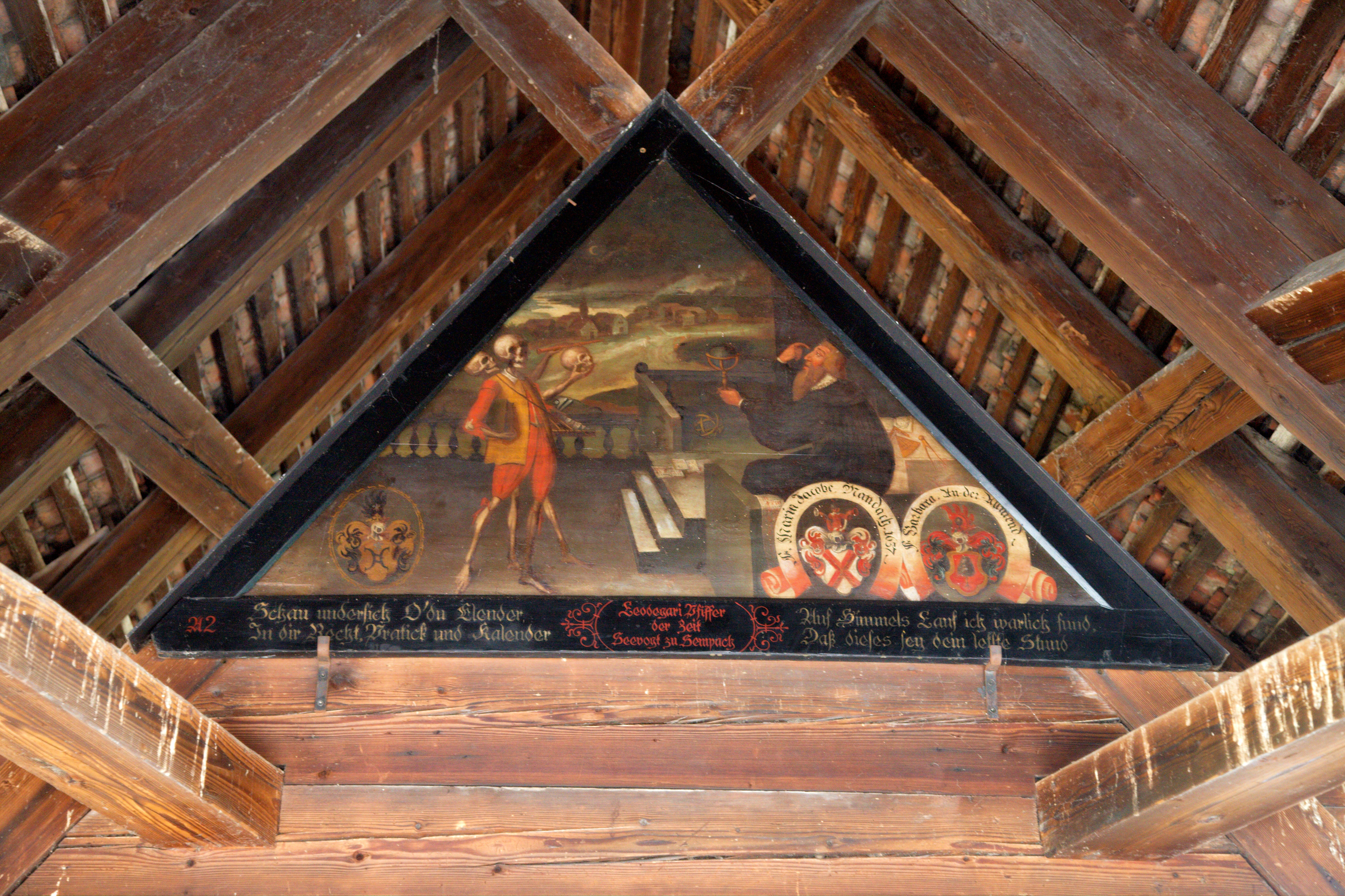 Painting of the Spreuerbrücke in Lucerne